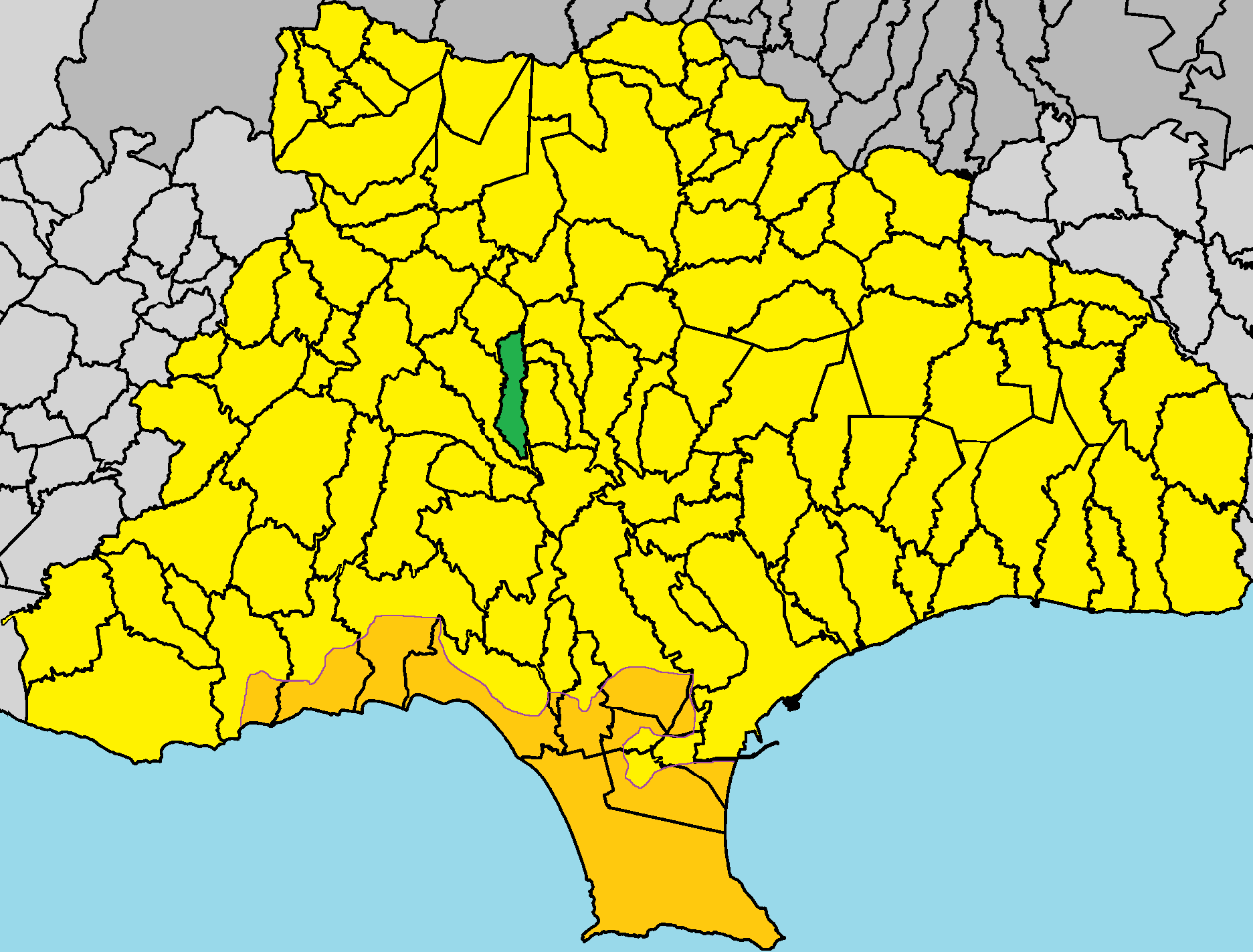 Agios Georgios, Limassol in Limassol District.